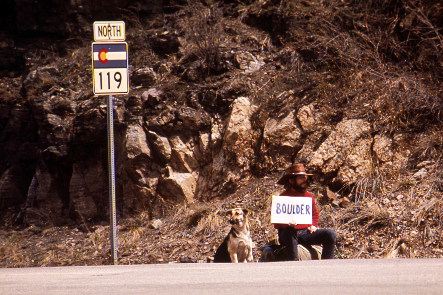 This is reworking of a previous picture, HITCHHIKER WAITS FOR RIDE FROM BLACK HAWK TO BOULDER - NARA - 544807.tif. It's cropped, color enhanced in Photoshop, cleaned the road for dust, and using layer to enhance the letters on the sign. I reduced to size some and gave it a little sharpen.